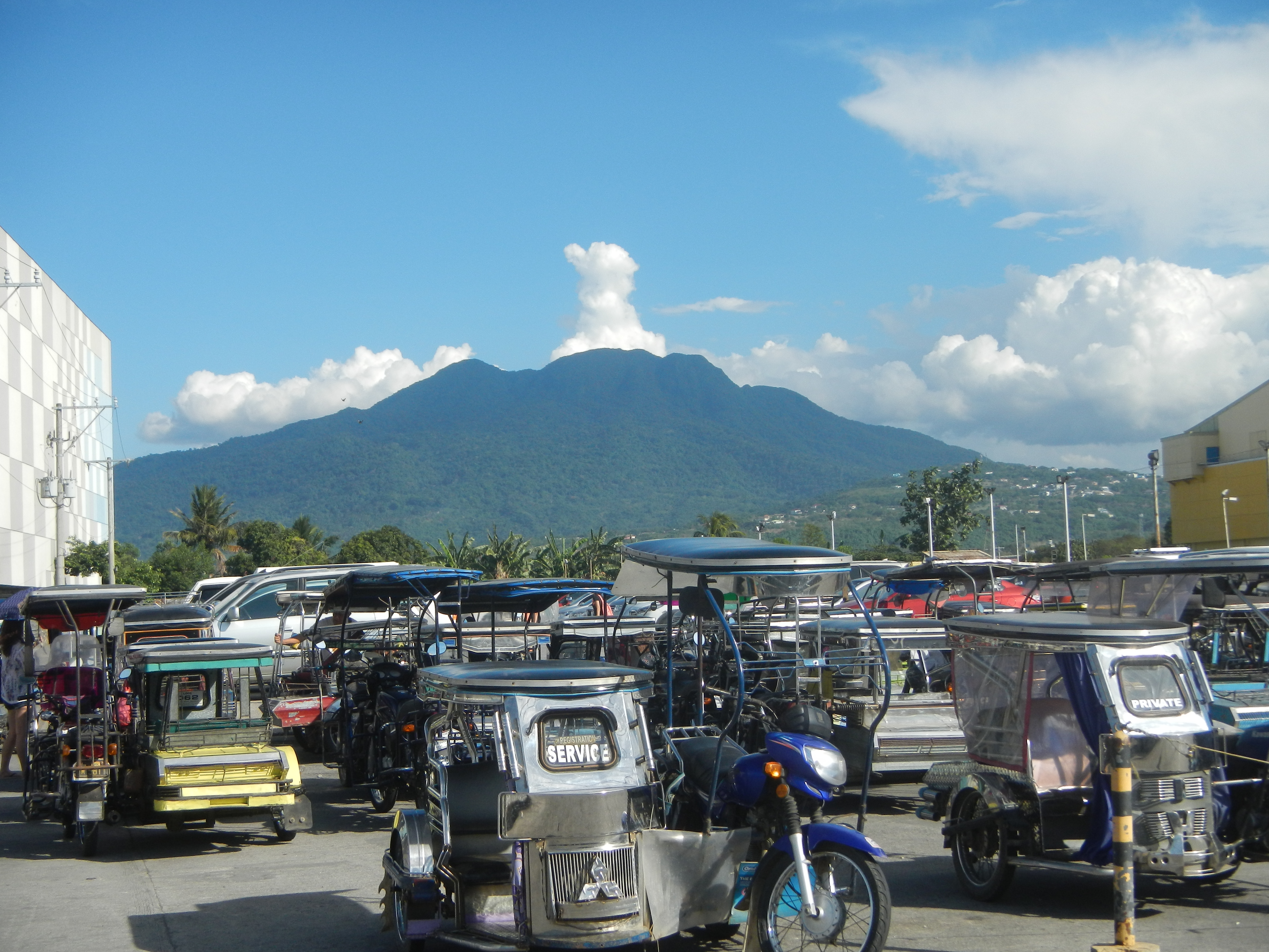 Exterior of SM City Calamba Walter Mart Calamba-Real HM Transport Inc. Real, Calamba 14°11'49"N 121°9'2"E from Turbina and Milagrosa, Calamba along Maharlika Highway (Calamba City section) Pan-Philippine Highway; in Makiling 14°9'8"N 121°8'17"E Barangays Makiling, Calamba Milagrosa Turbina, Calamba Real, Calamba Poblacion I, Calamba Poblacion II, III, IV, VI and VII, Calamba and Poblacion V, Calamba Calamba, Laguna Poblacion 14°12'32"N 121°9'46"E Calamba Poblacion (Note: Judge Florentino Floro, the owner, to repeat, Donor Florentino Floro of all these photos hereby donate gratuitously, freely and unconditionally Judge Floro all these photos to and for Wikimedia Commons, exclusively, for public use of the public domain, and again without any condition whatsoever).